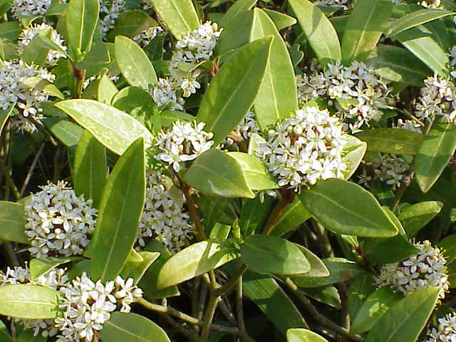 Species: Skimmia reevesiana Family: Rutaceae Image No. 3